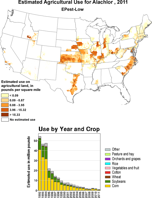 Alachlor map of use, USA, 2011 (estimated).